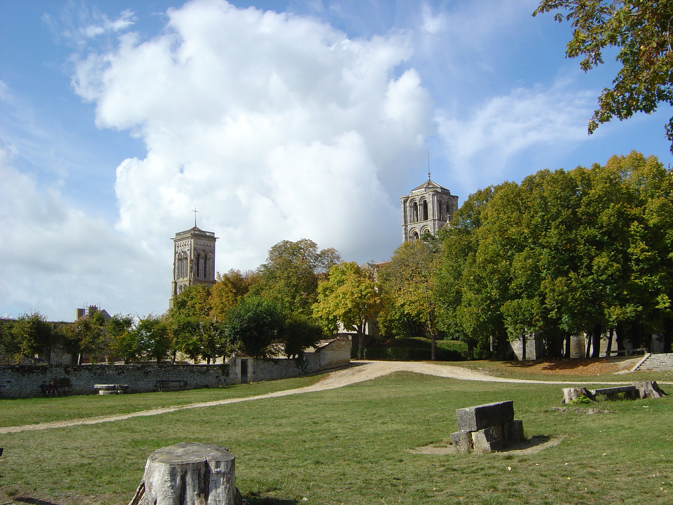 Basilique Sainte Madeleine, Vézelay, France 29. September 2005 photo taken by User:Breeze